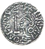 Viking Age coin with image of Norwegian & Danish king Magnus the Good